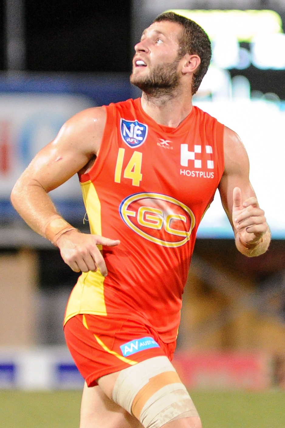 Mitch Hallahan playing for the Gold Coast Suns' reserves in May 2017.